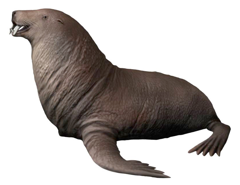 Life restoration of Gomphotaria pugnax